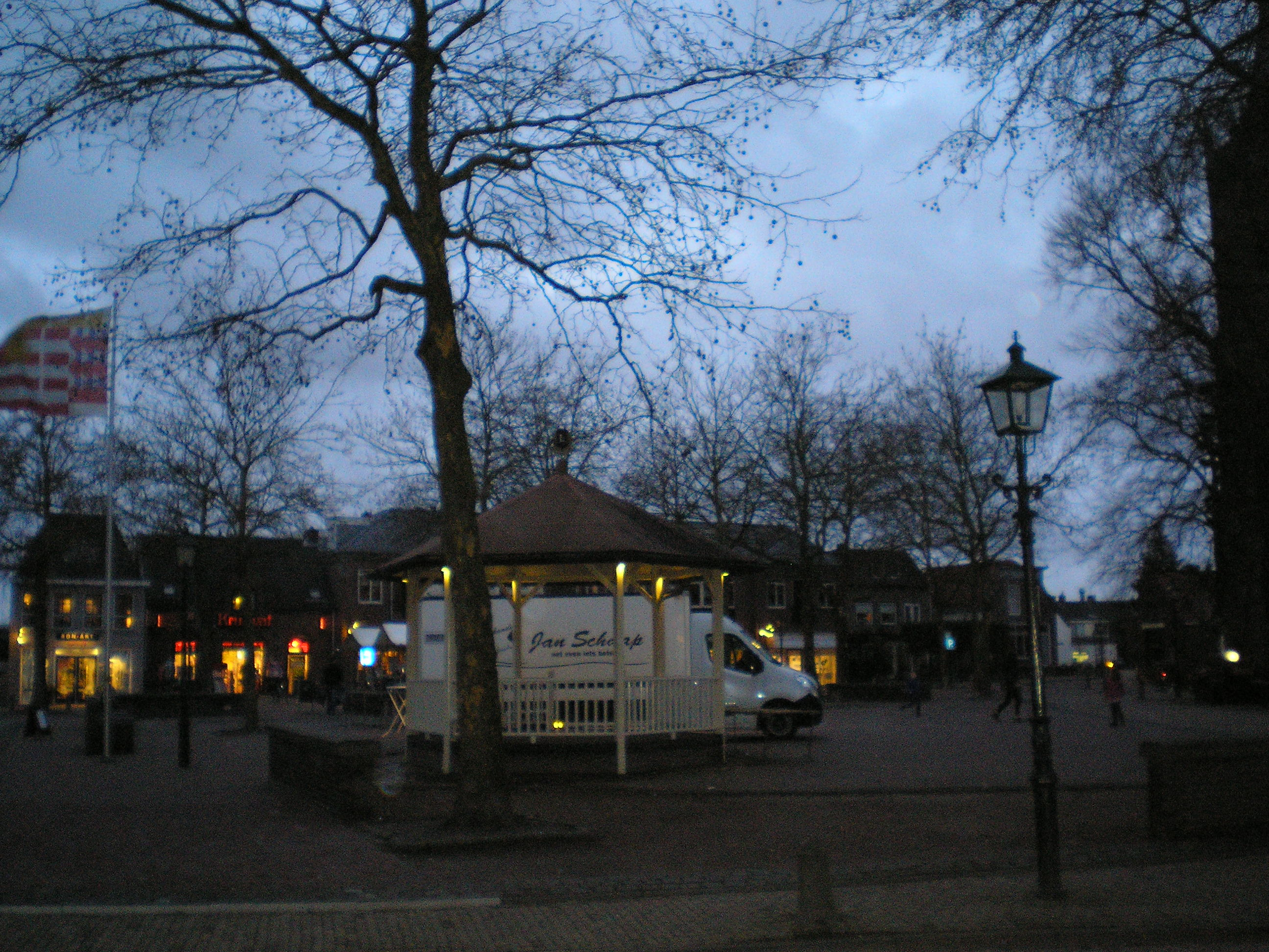 The Oude Dorp in Houten in the Netherlands